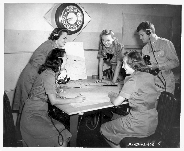 Women from WARD share a laugh. HWRD 1227